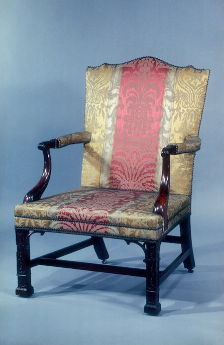 American; Armchair; Furniture